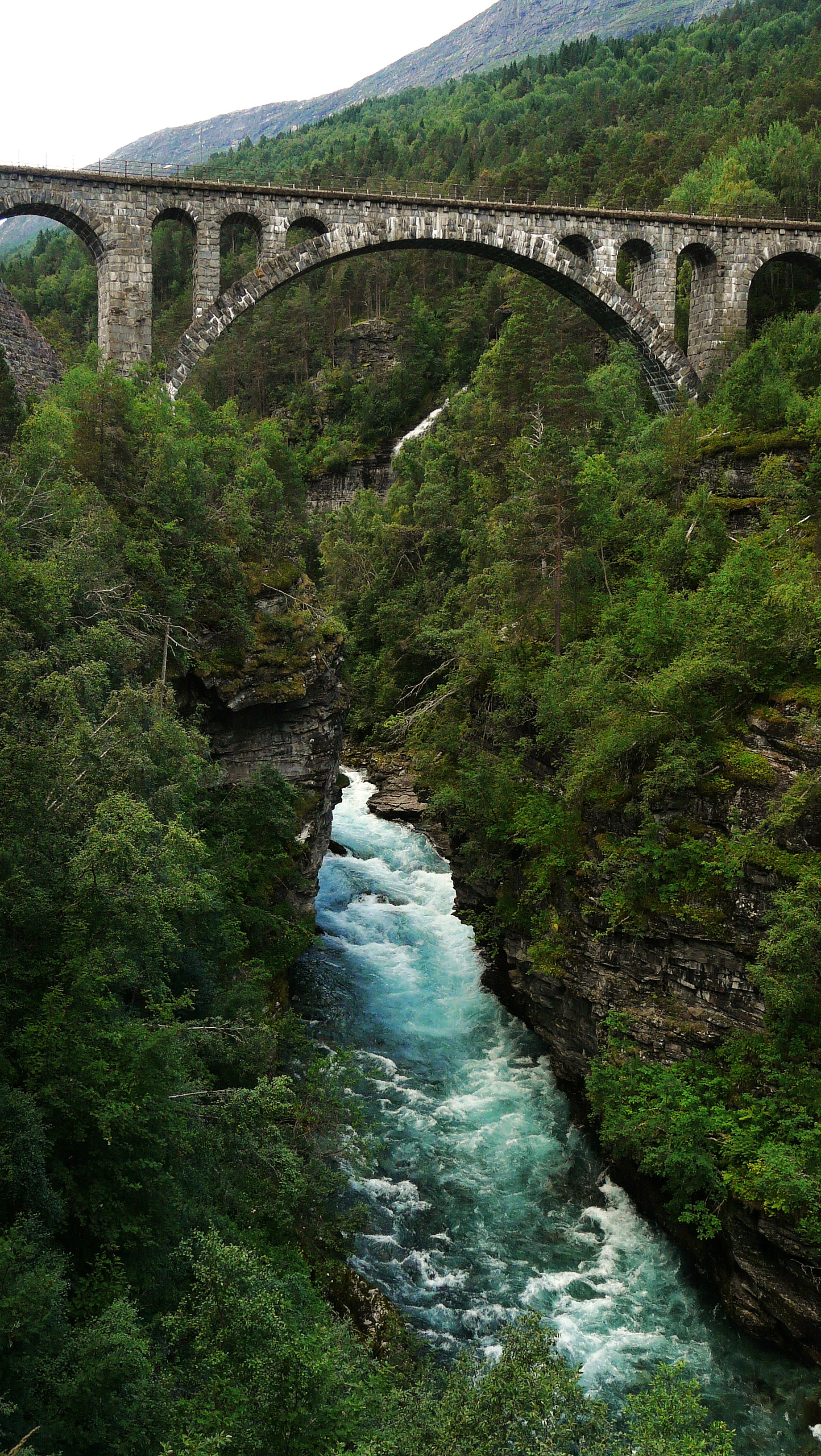 Kylling bru in 2008 August.